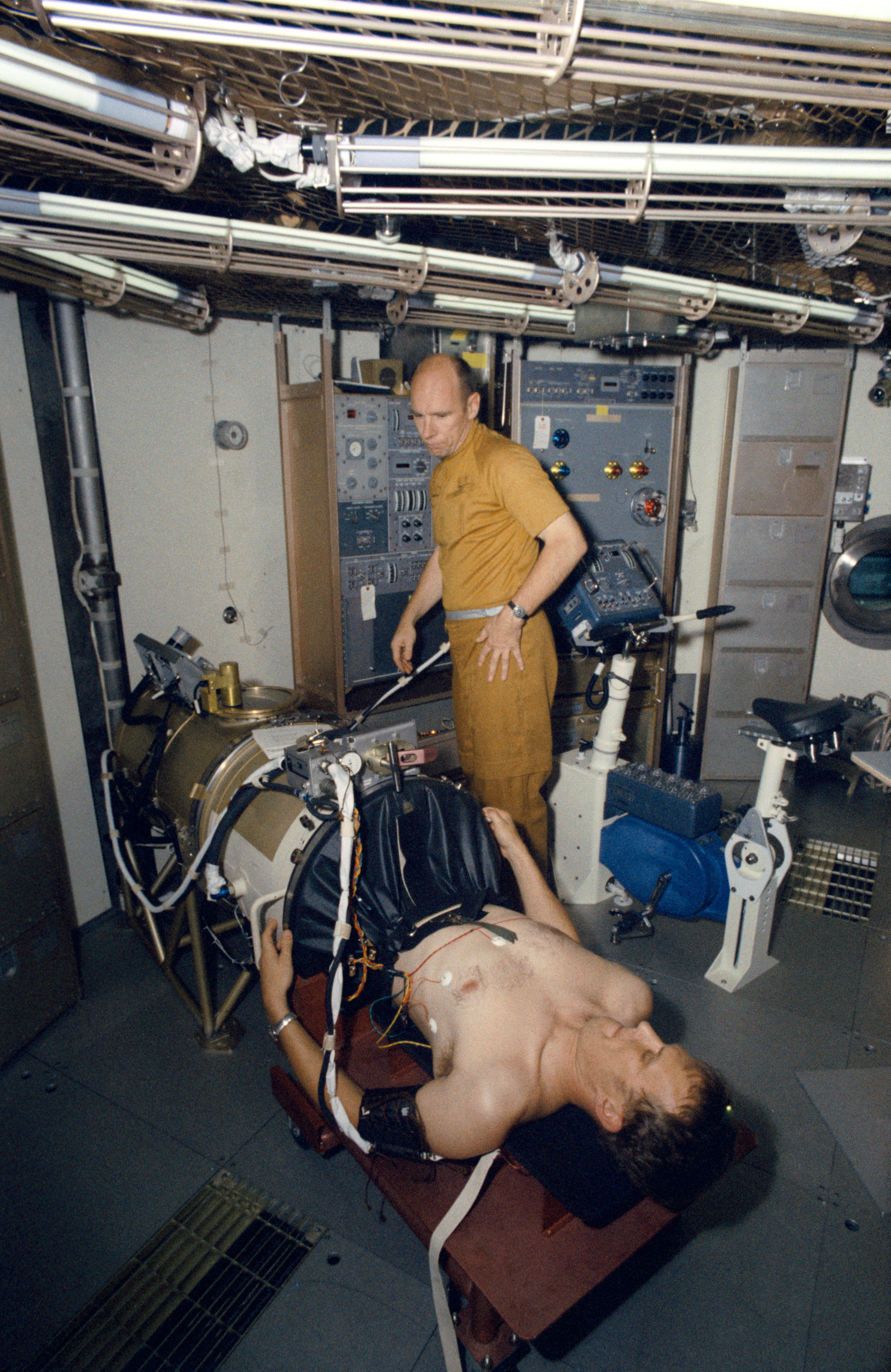 Astronaut Karol J. Bobko, Skylab Medical Experiment Altitude Test (SMEAT) pilot, is configured for a test in the Lower Body Negative Pressure experiment. Dr. William E. Thornton, SMEAT science pilot, stands by at the controls. Bobko and Thornton are two members of a three-man SMEAT crew who will spend up to 56 days in the Crew Systems Division's 20-foot altitude chamber at the Manned Spacecraft Center (MSC) beginning in mid-July to give a preview of the use of the SMEAT. Astronaut Robert L. Crippen, SMEAT commander, the third crew member is not shown in this view.